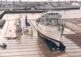 Ship lift, Den Helder.